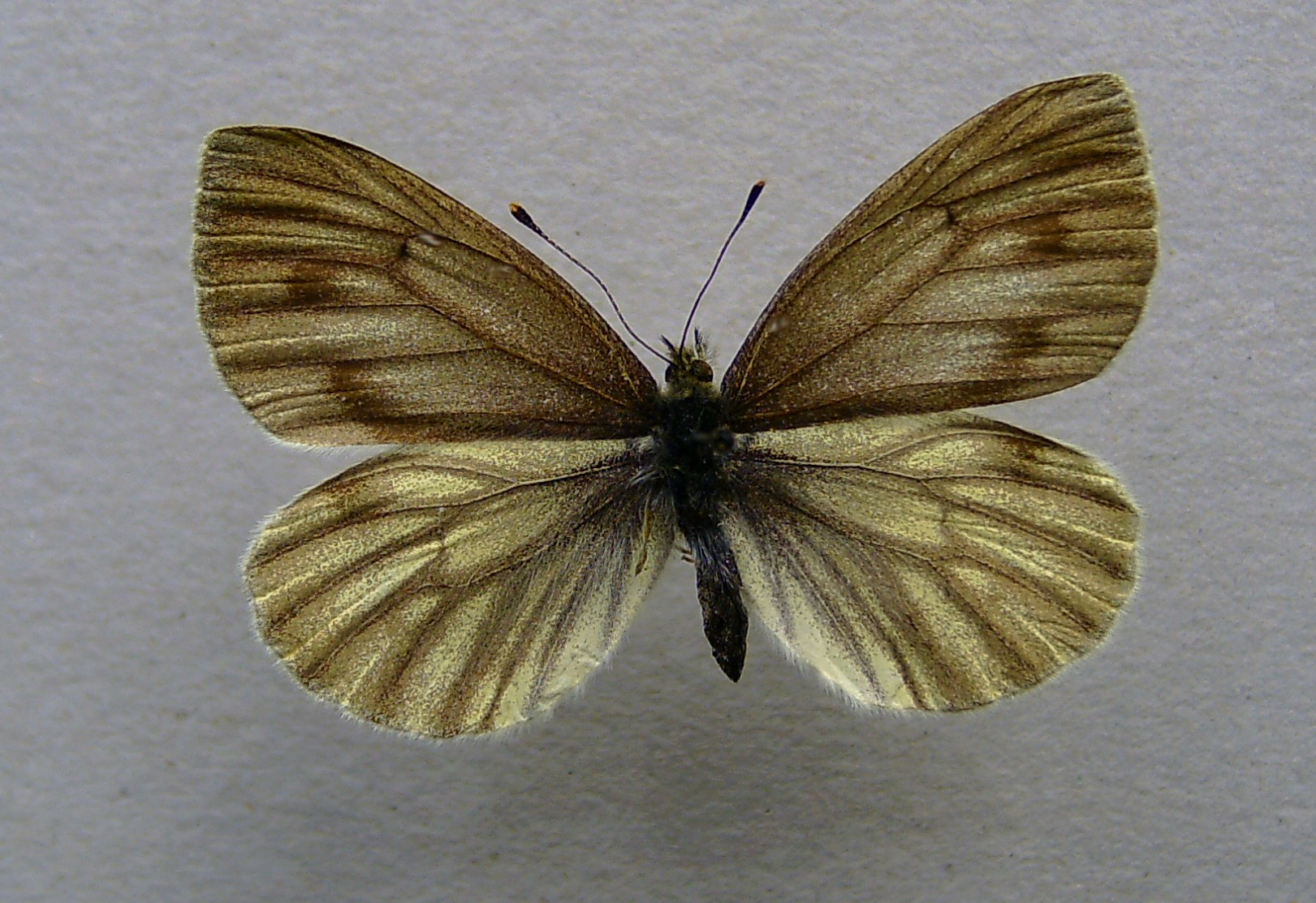 Pieris bryoniae